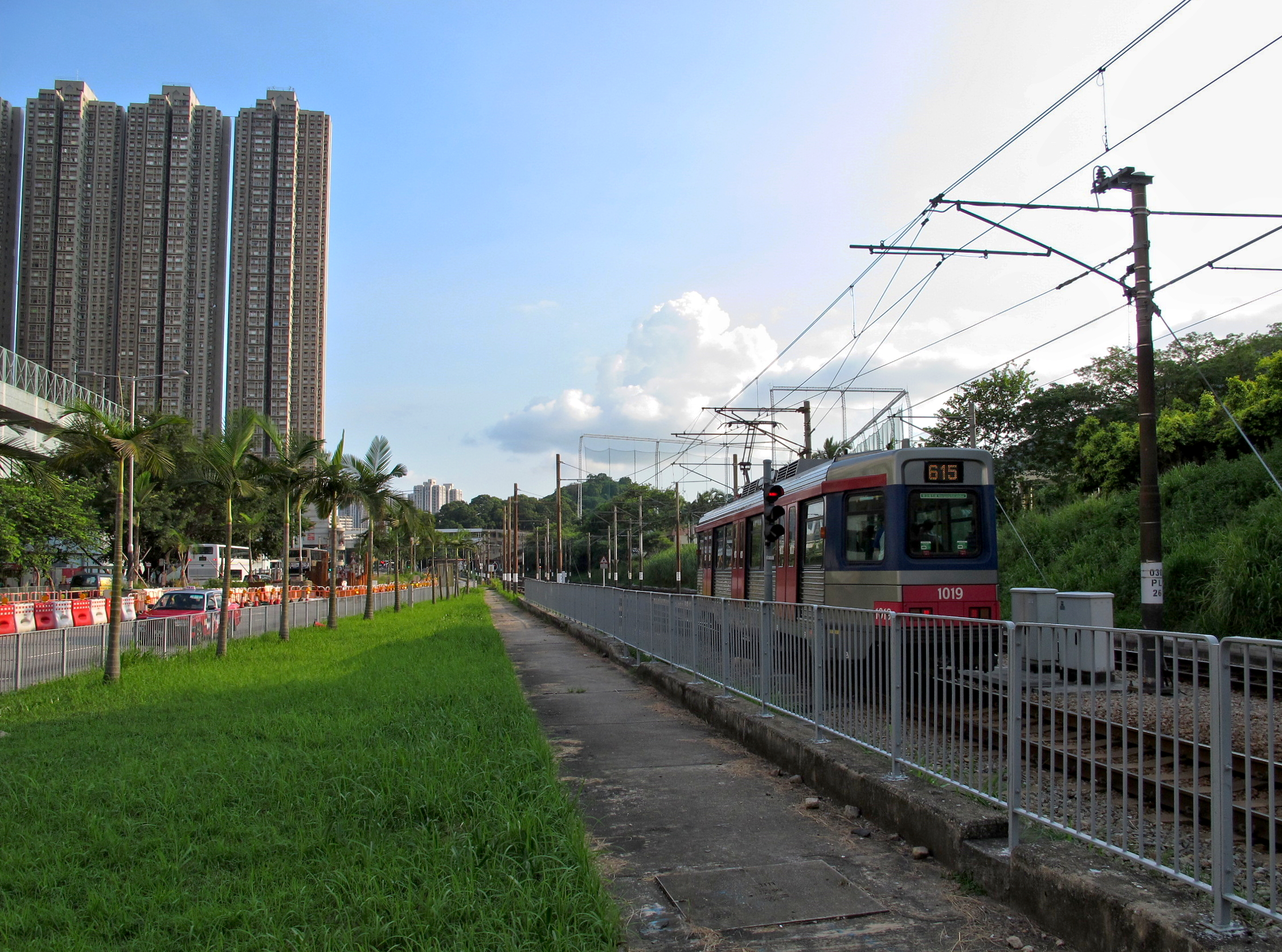 Light Rail Track in Tuen Mun